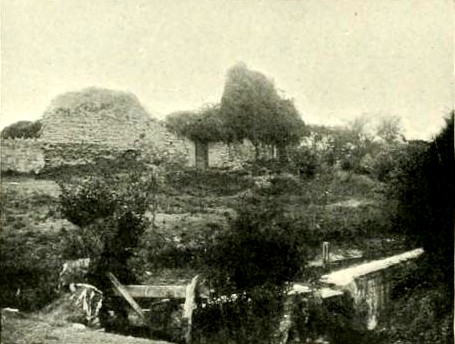 A late Victorian photograph of Storgursey Castle